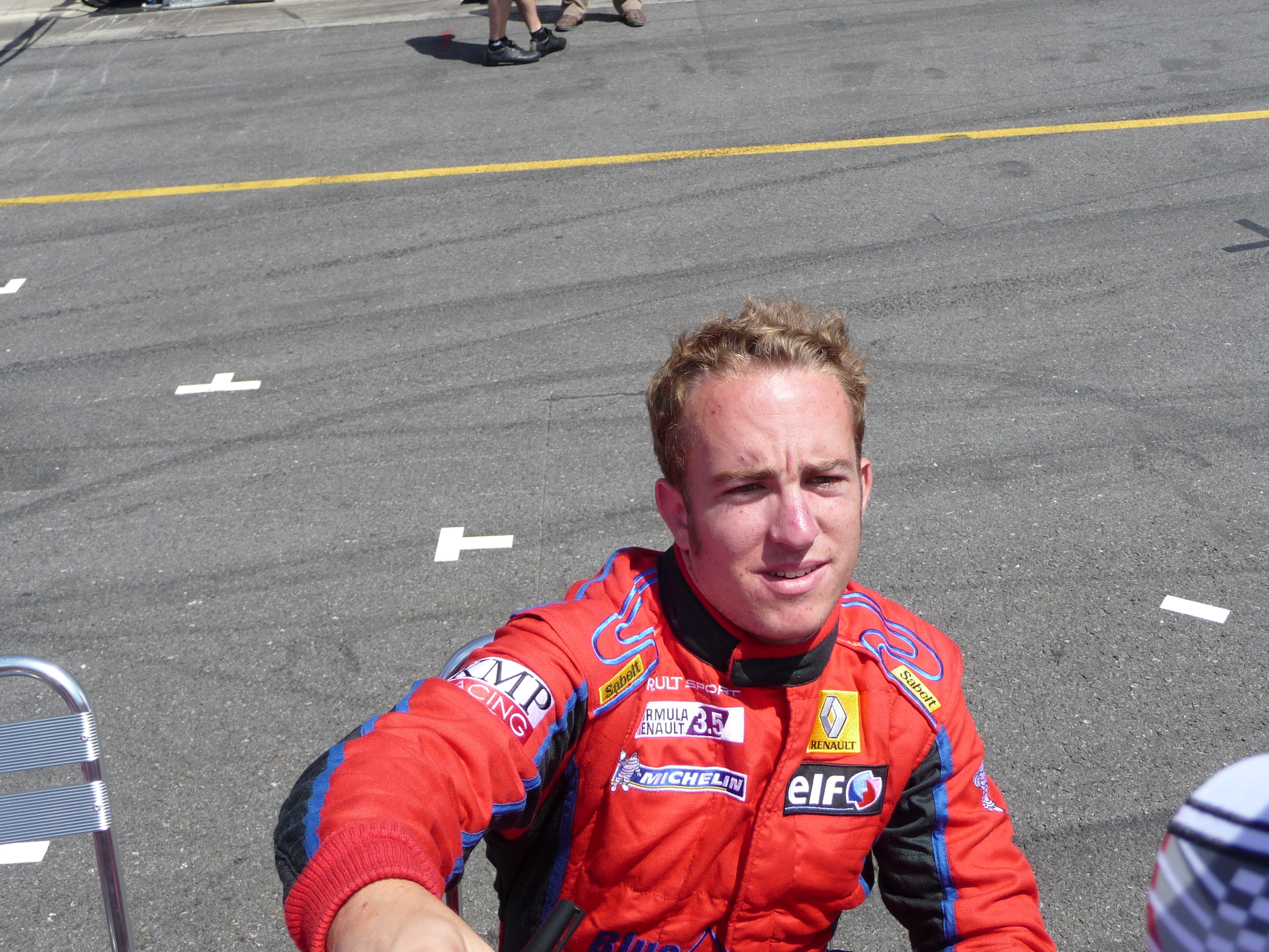 Víctor García, Pit walk, 2010 Brno World Series by Renault -10 -5 -3 -2 ◄ ► +2 +3 +5 +10